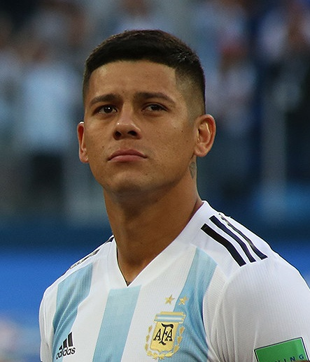 Marcos Rojo with Argentina against Nigeria in the 2018 FIFA World Cup